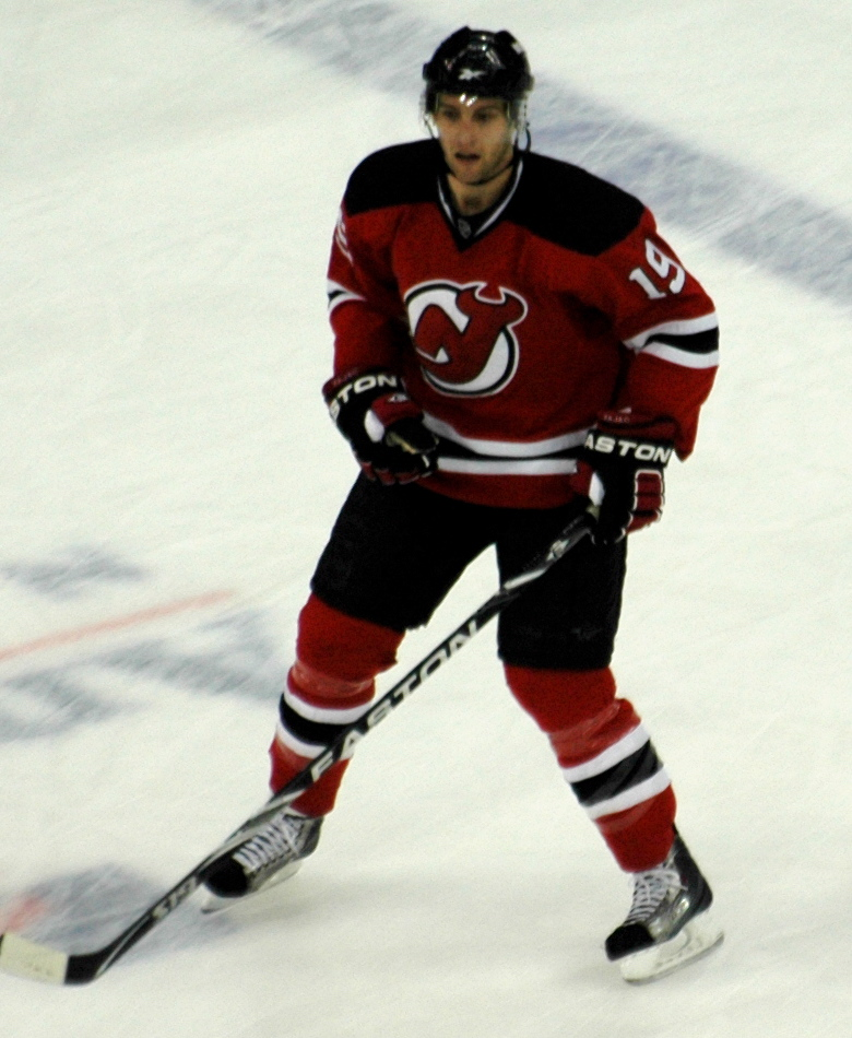 Travis_Zajac plays with Devils against Chicago